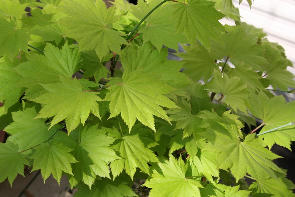 Acer shirasawanum leaves - Feuilles